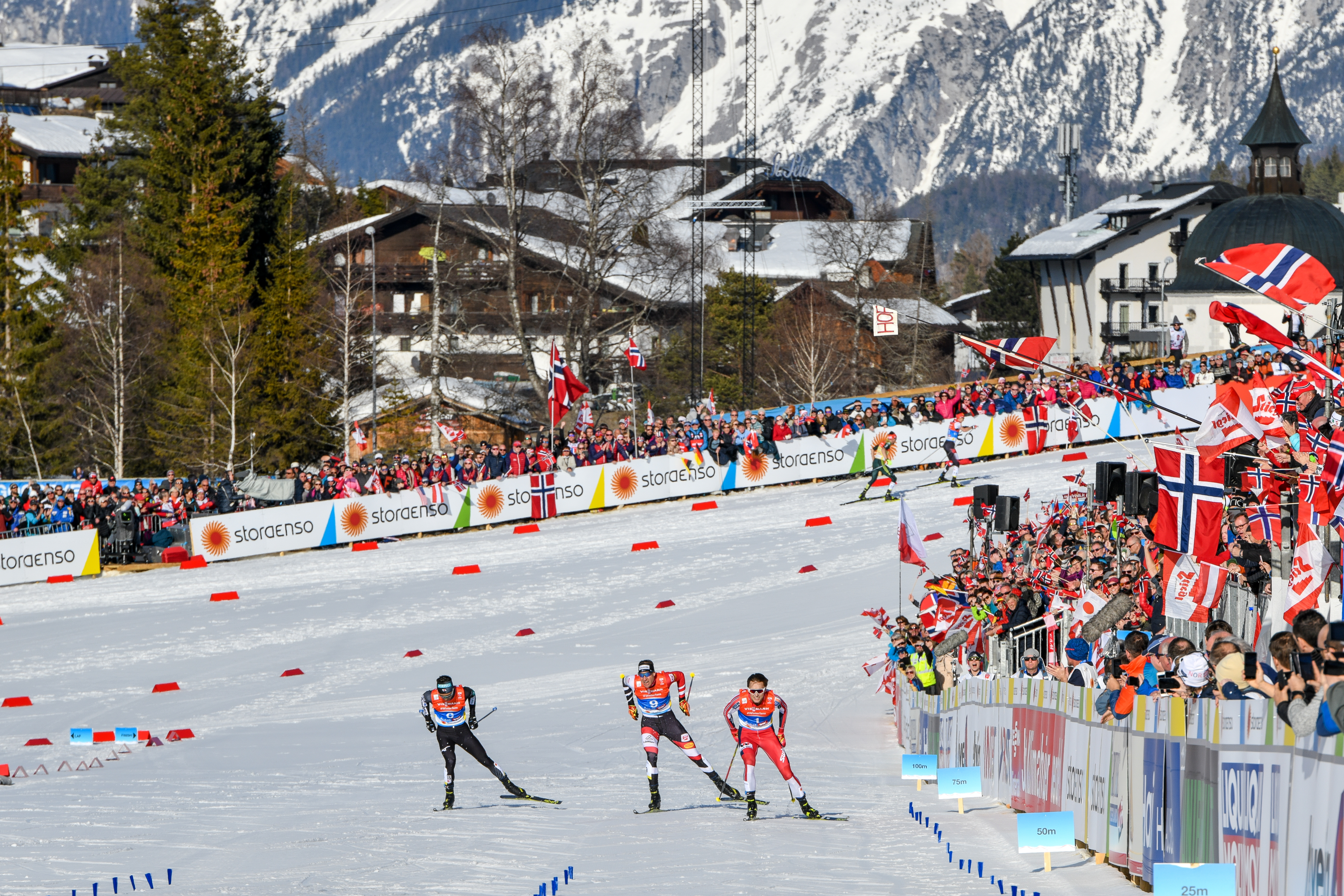 FIS Nordic World Ski Championships Seefeld 2019 - Nordic Combined 10km Gundersen. Picture shows Jarl Magnus Riiber winning the sprint